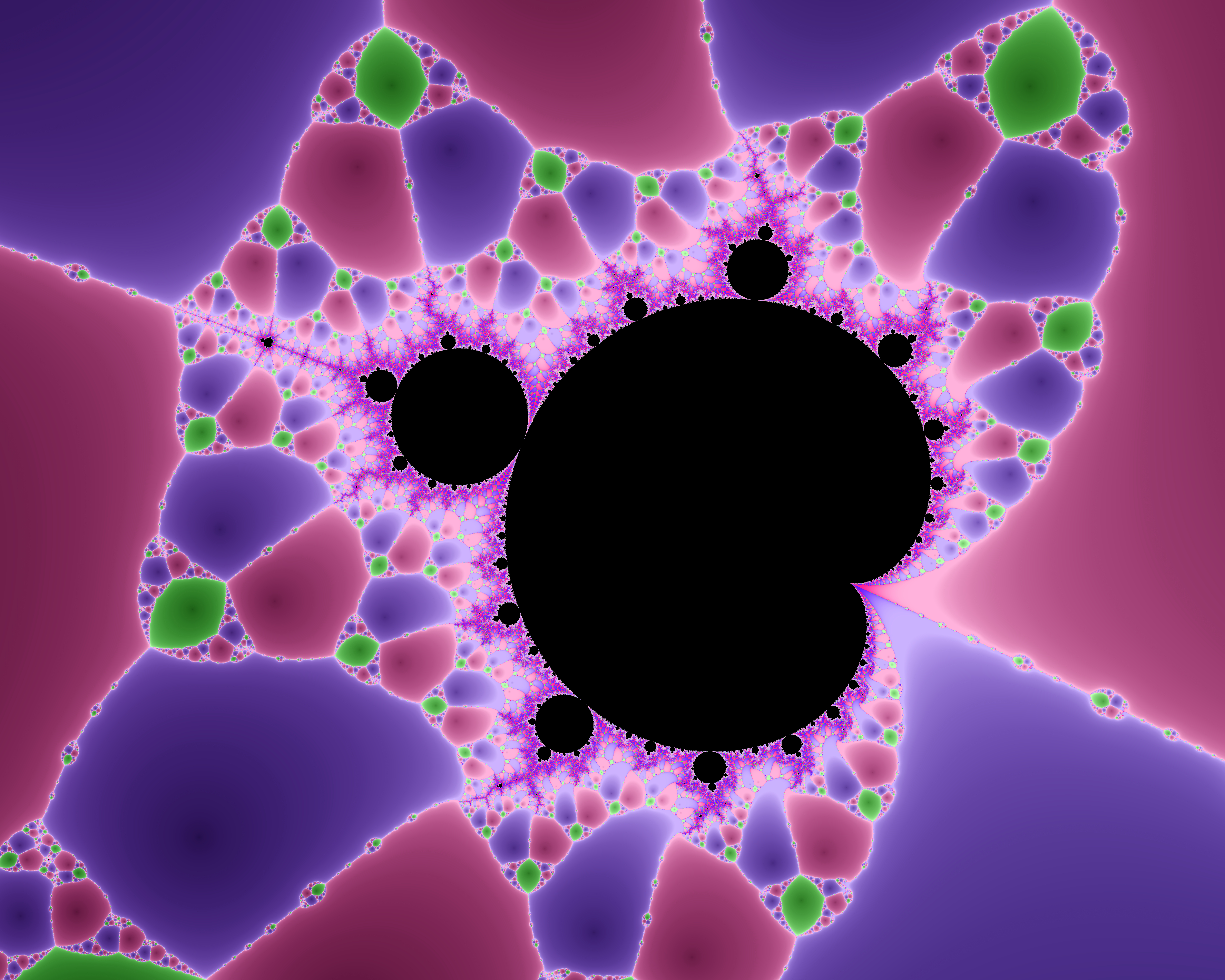 Computergraphical study of the critical point 0 of Newton's method for a family of cubic polynomials in the complex -plane. For details see below.